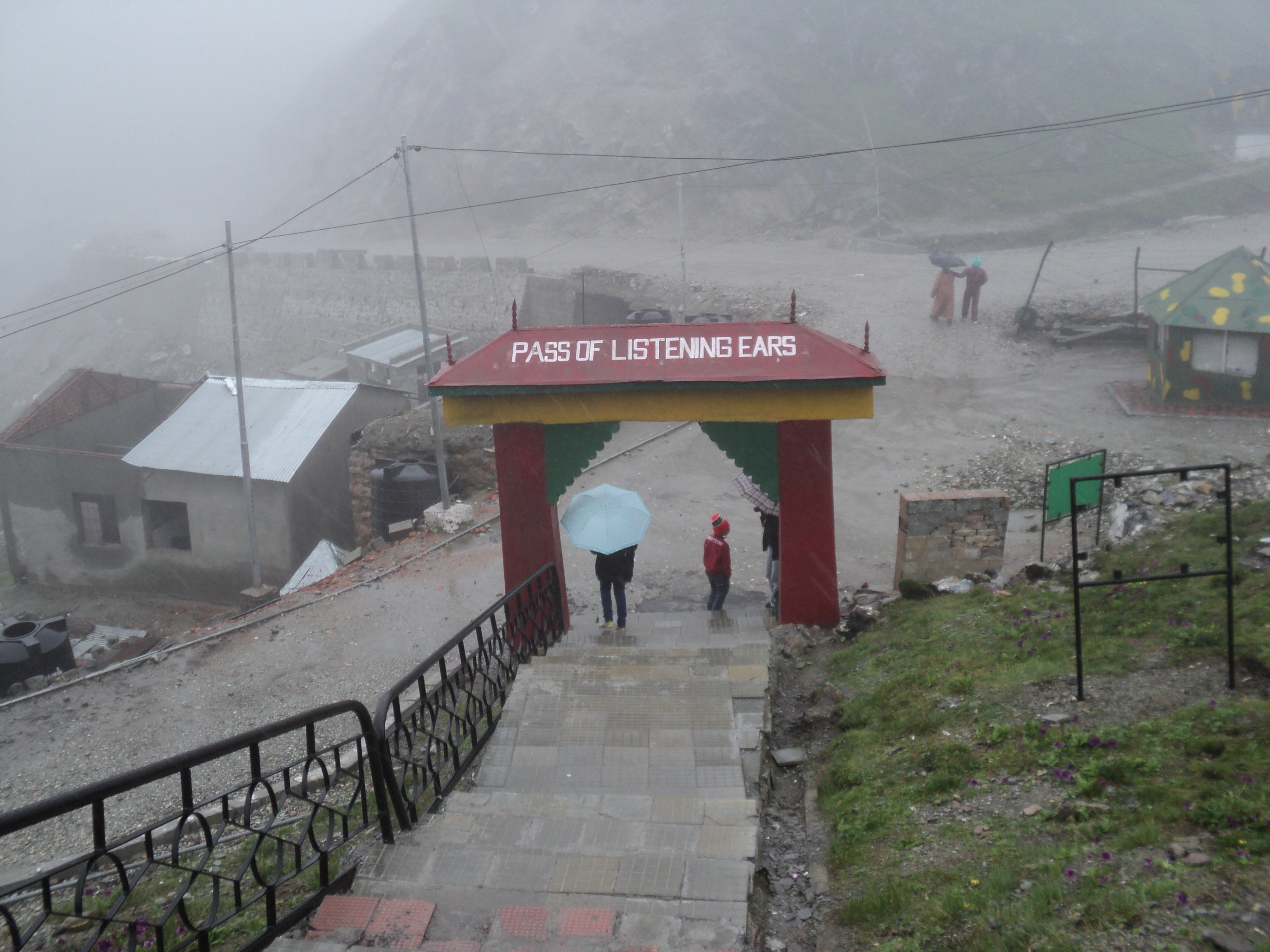 Nathu La